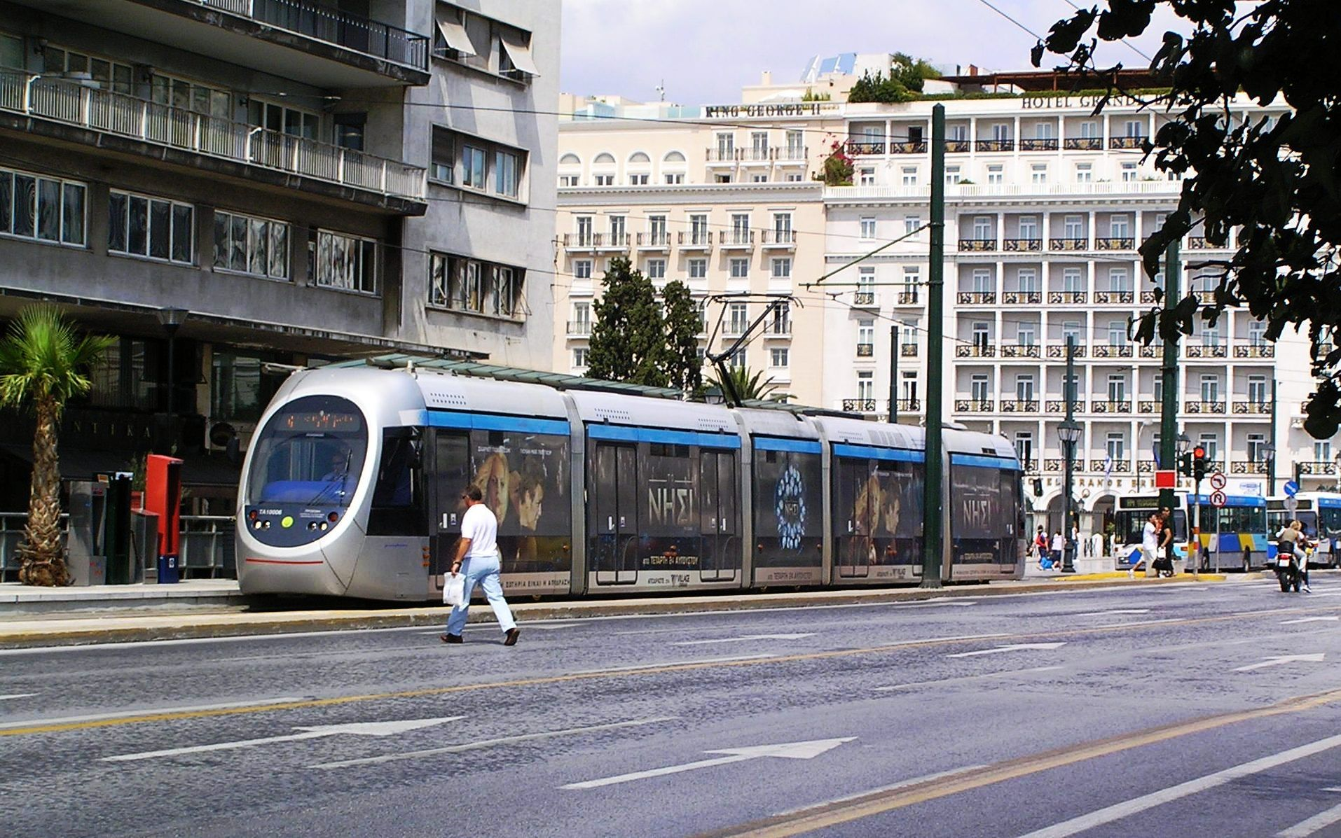 A tram in Syntagma, Athens